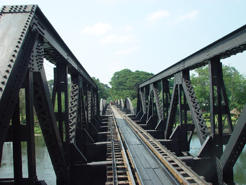 Bridge of the river Kwai